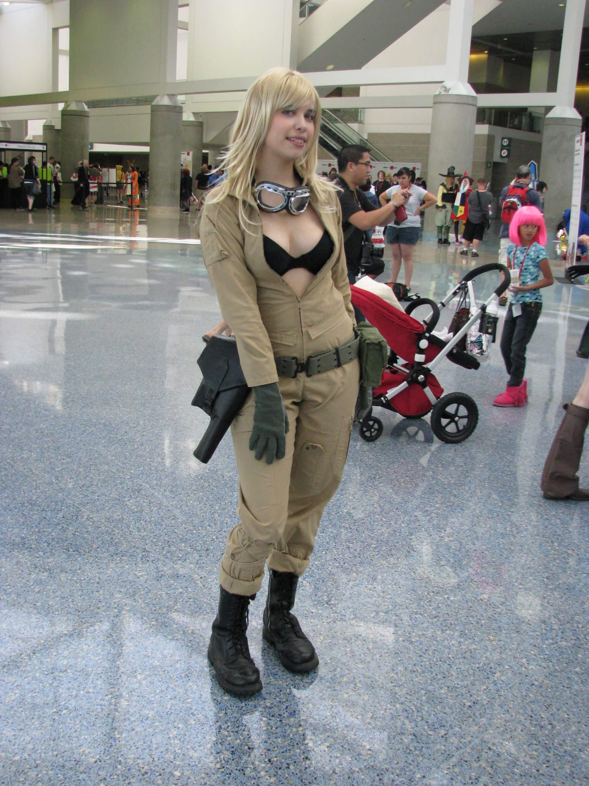 Cosplay of EVA from Metal Gear Solid 3: Snake Eater at Anime Expo 2010.